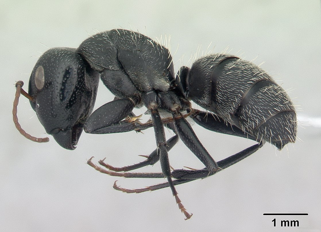 Profile view of ant Camponotus grandidieri specimen casent0188200.